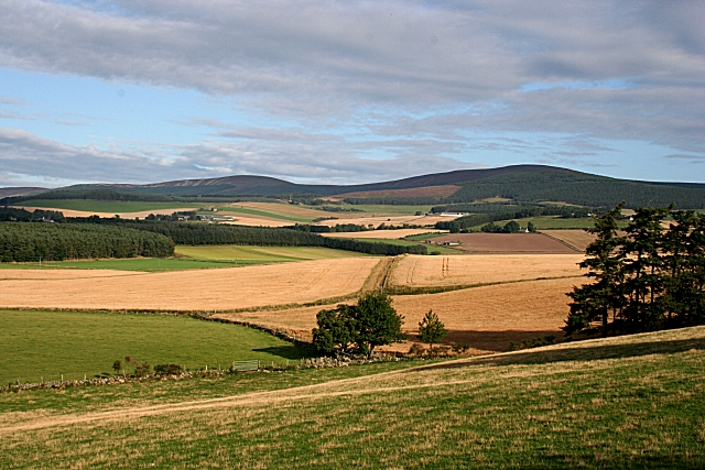 Looking towards Pressendye from near Stonyford Early morning sunshine and a lowering sky emphasize the colour of the ripe barley in this view near Tarland. Pressendye is the highest point on the skyline, and the lower summit to its left is Brown Hill.